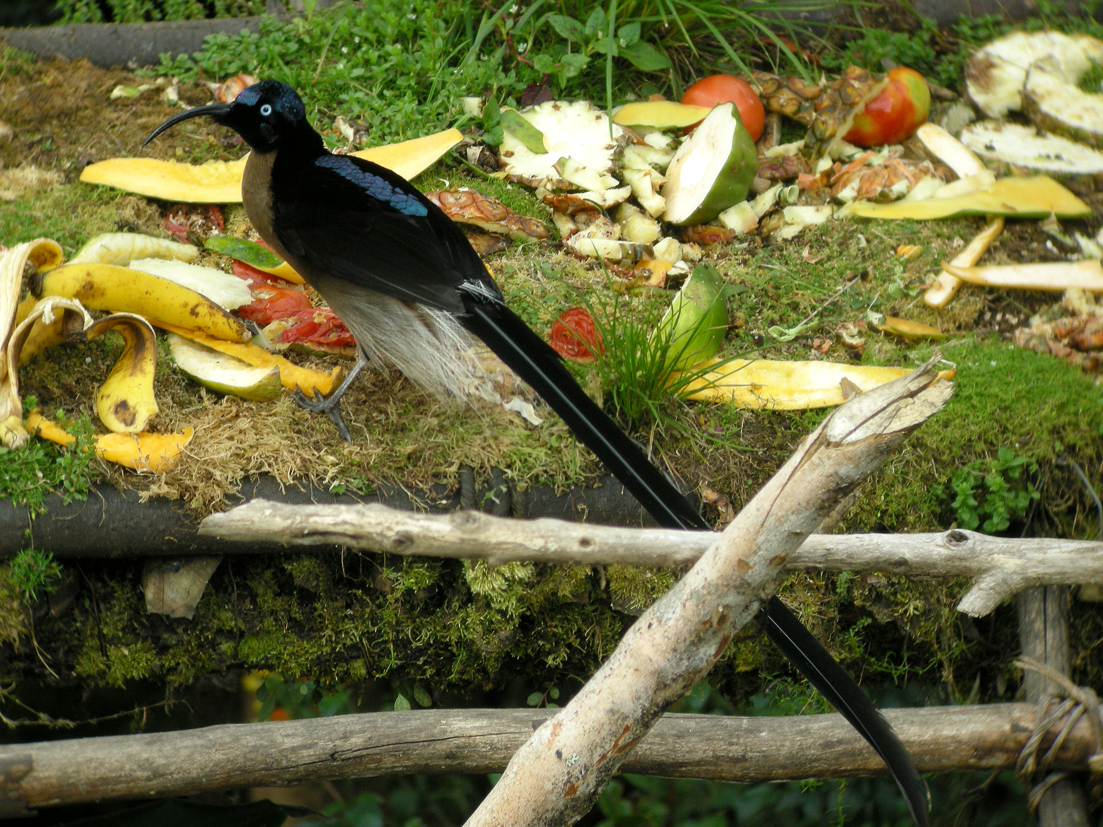 A male Brown Sicklebill in Papua New Guinea.